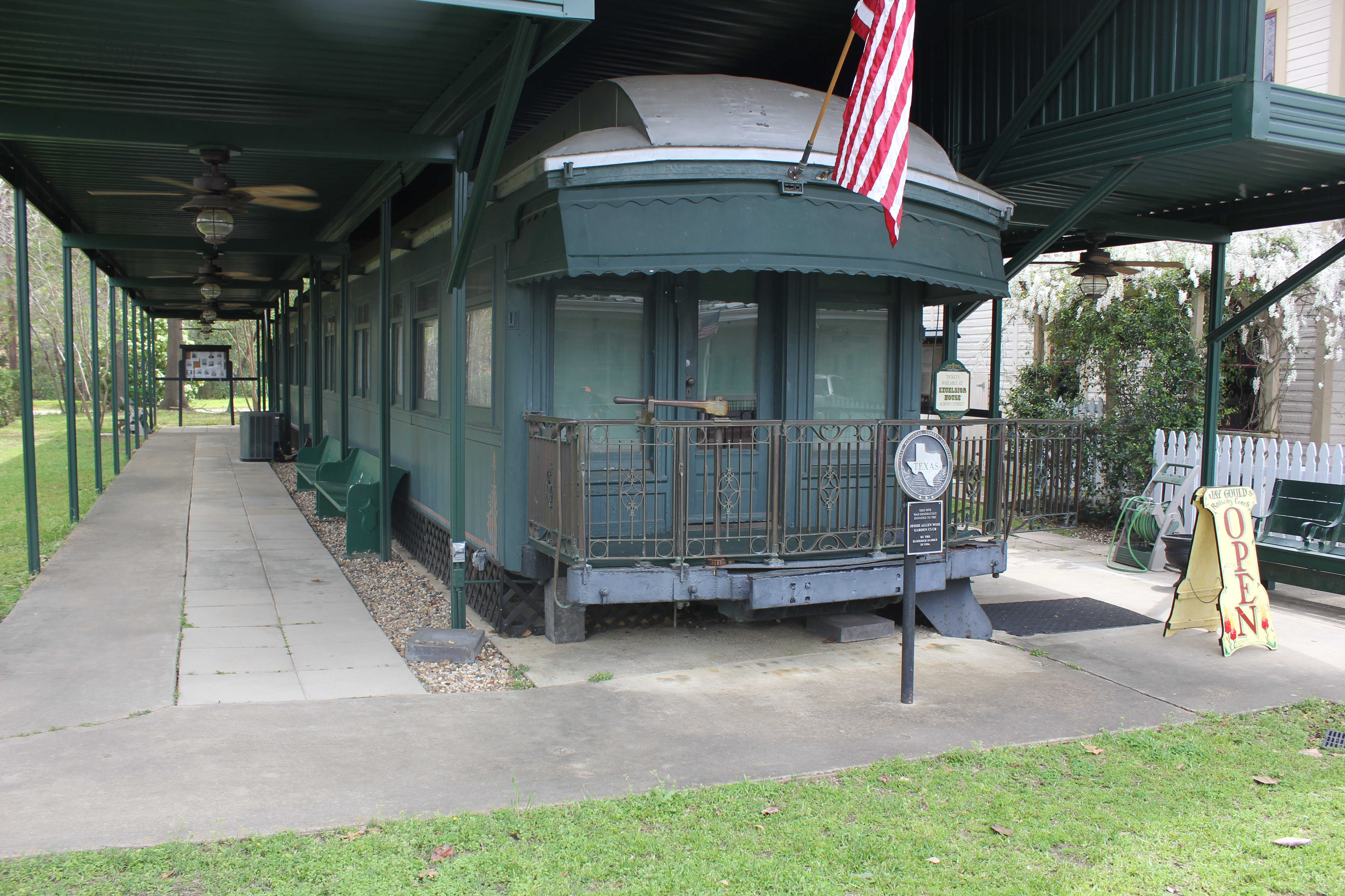 You can take tours of this for $5. I went on one back in 2010, it's really cool.